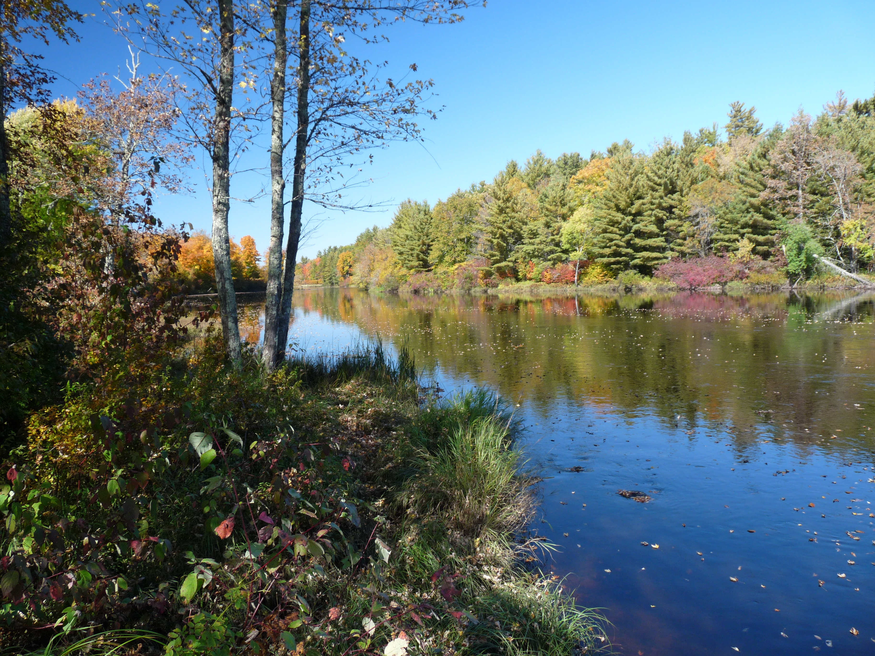 The Flambeau River State Forest is a state park along the Flambeau River in northern Wisconsin. In 1973 it was designated a National Natural Landmark, one of only 18 in the state of Wisconsin. Photo taken from the boat landing where Deadman Slough enters the Flambeau at Highway 70, looking downstream with water level medium-high.